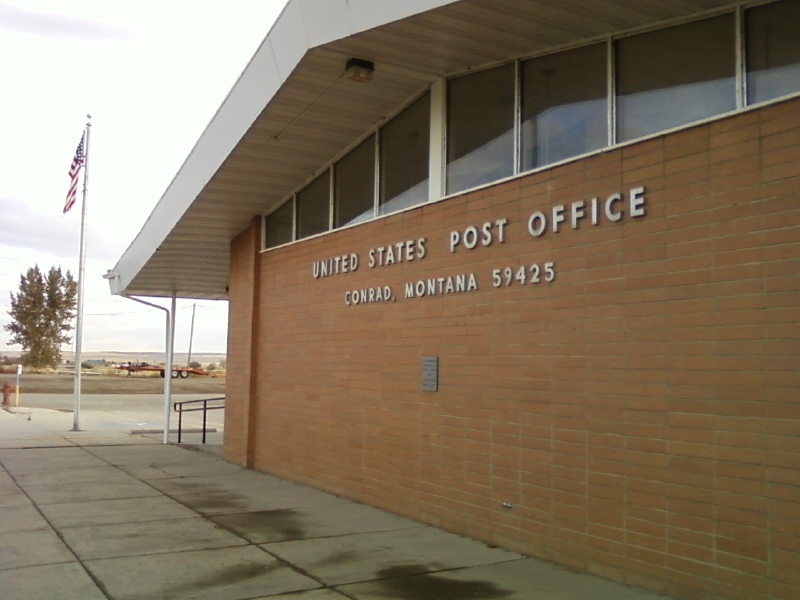 US Post Office, Conrad, MT